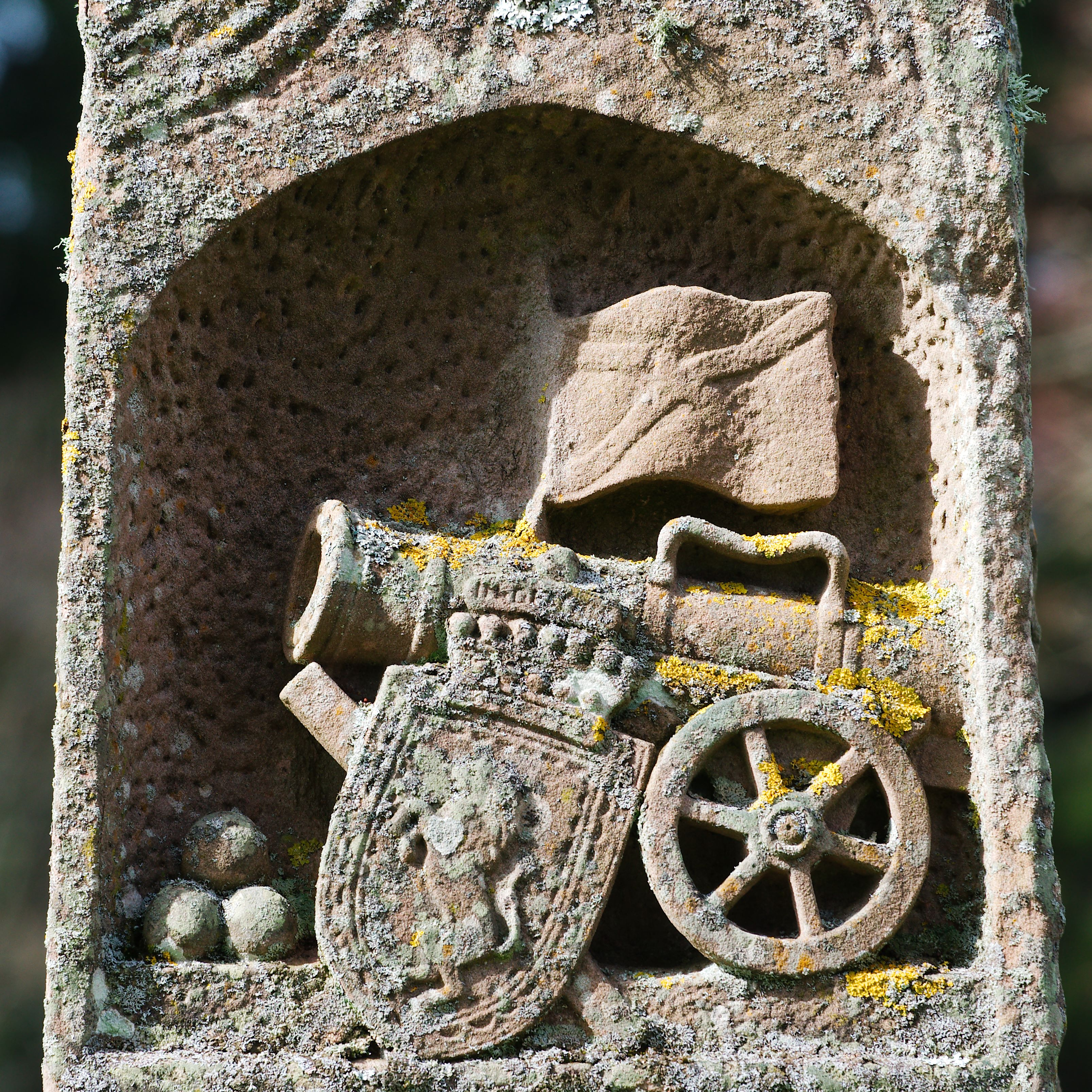 Border Abbeys 2016 - Dryburgh Abbey to Tweedbank